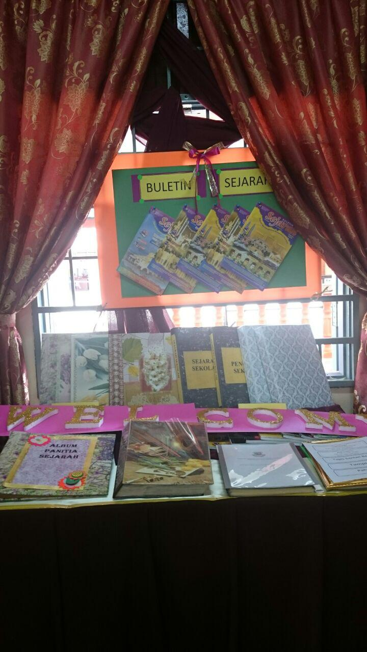 sudut buletin info